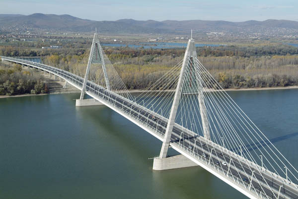 Megyeri híd, Hungary, aerial photography